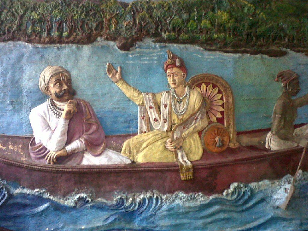 A mural of Amir-al-Umara (Head of the amirs) Naib Wakil-i-Mutlaq (Deputy Regent) The Great Maratha Raja Mahadaji Shinde (Scindia), the maharaja of Gwalior, India.